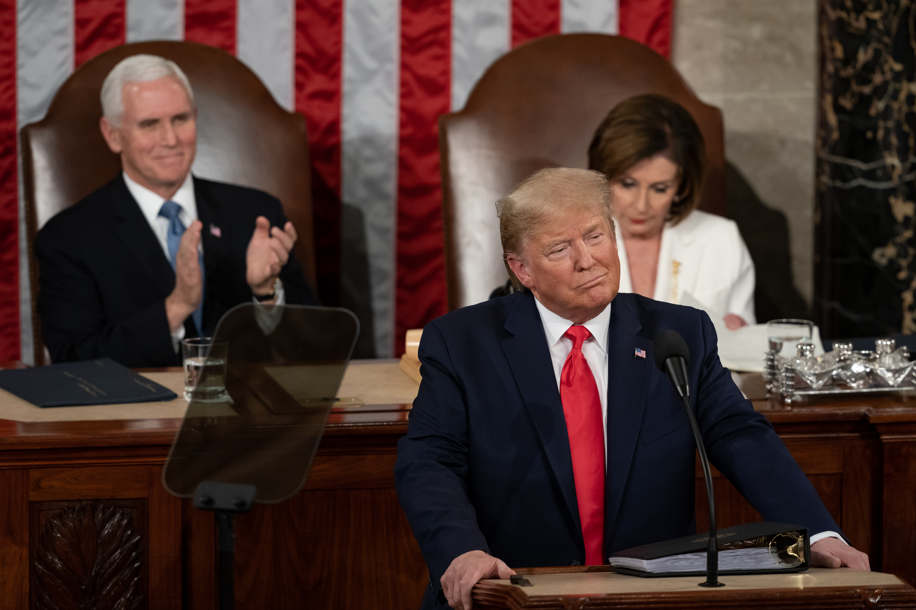 President Donald J. Trump delivers his State of the Union address Tuesday, Feb. 5, 2019, in the House Chamber of the U.S. Capitol in Washington, D.C. (Official White House Photo by Joyce N. Boghosian)